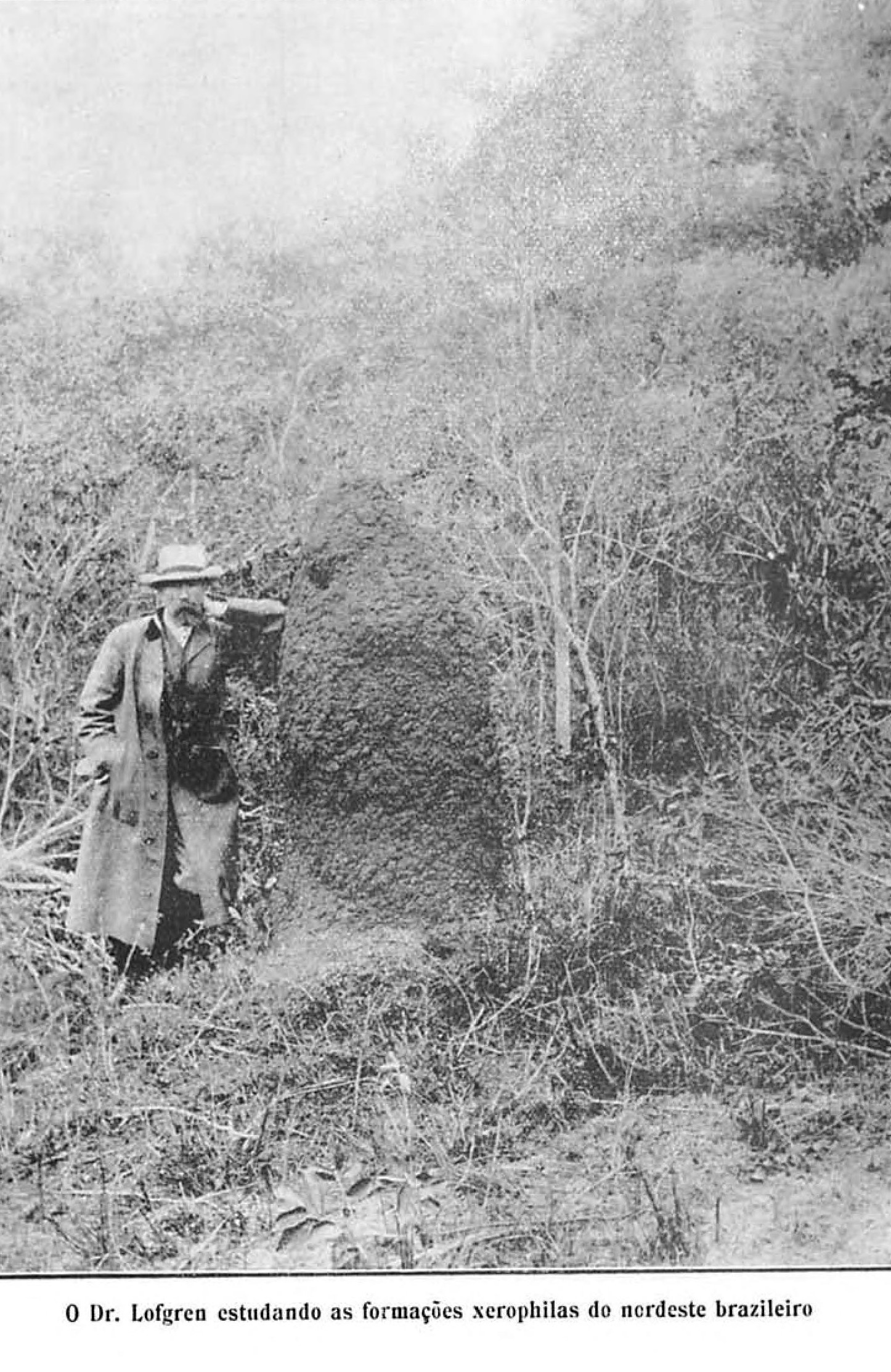 The Dr. Lofgren studying the xerophyle formations in Northeast Brazil.